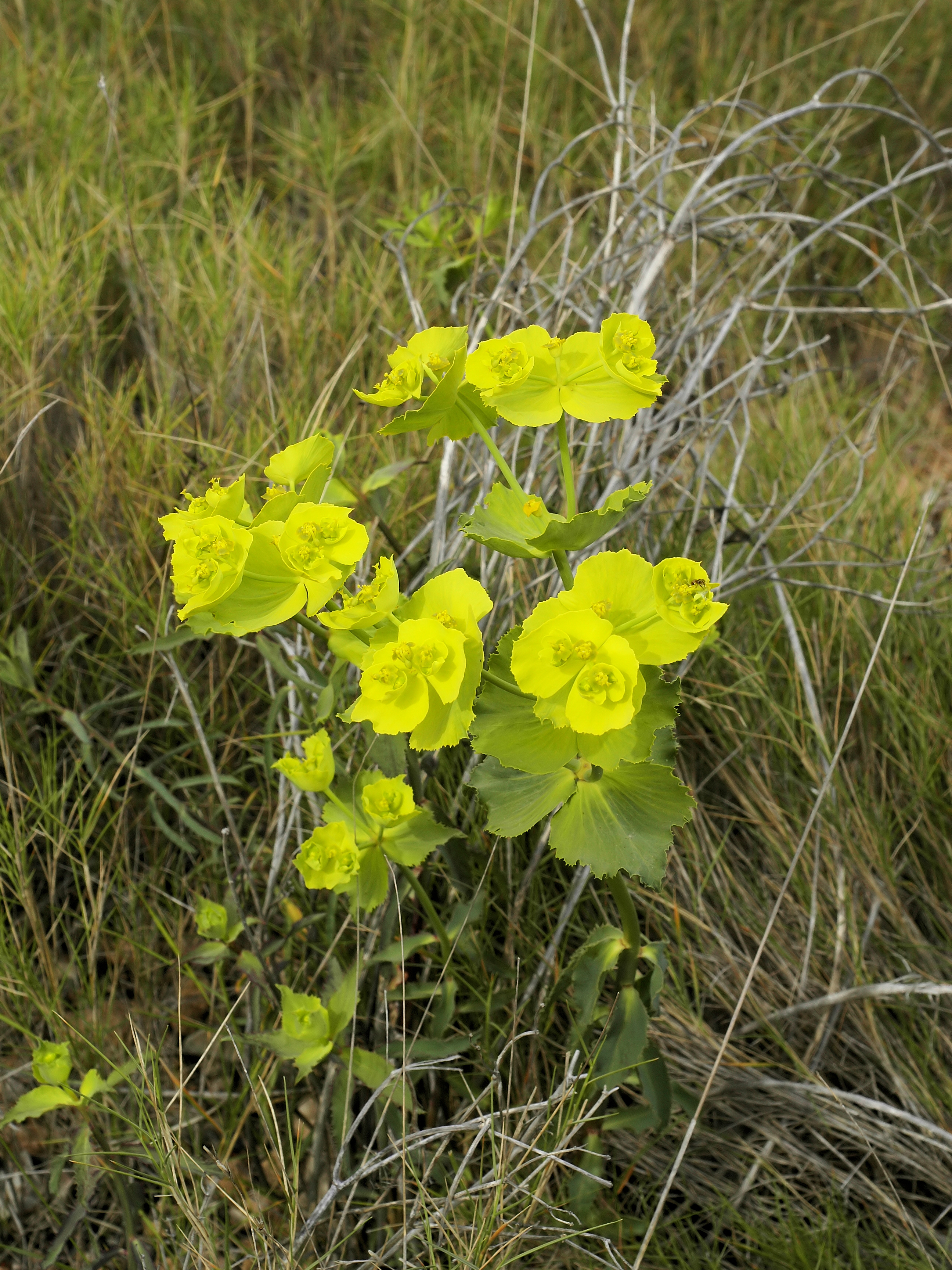 Plant near el Perelló, Catalonia, Spain